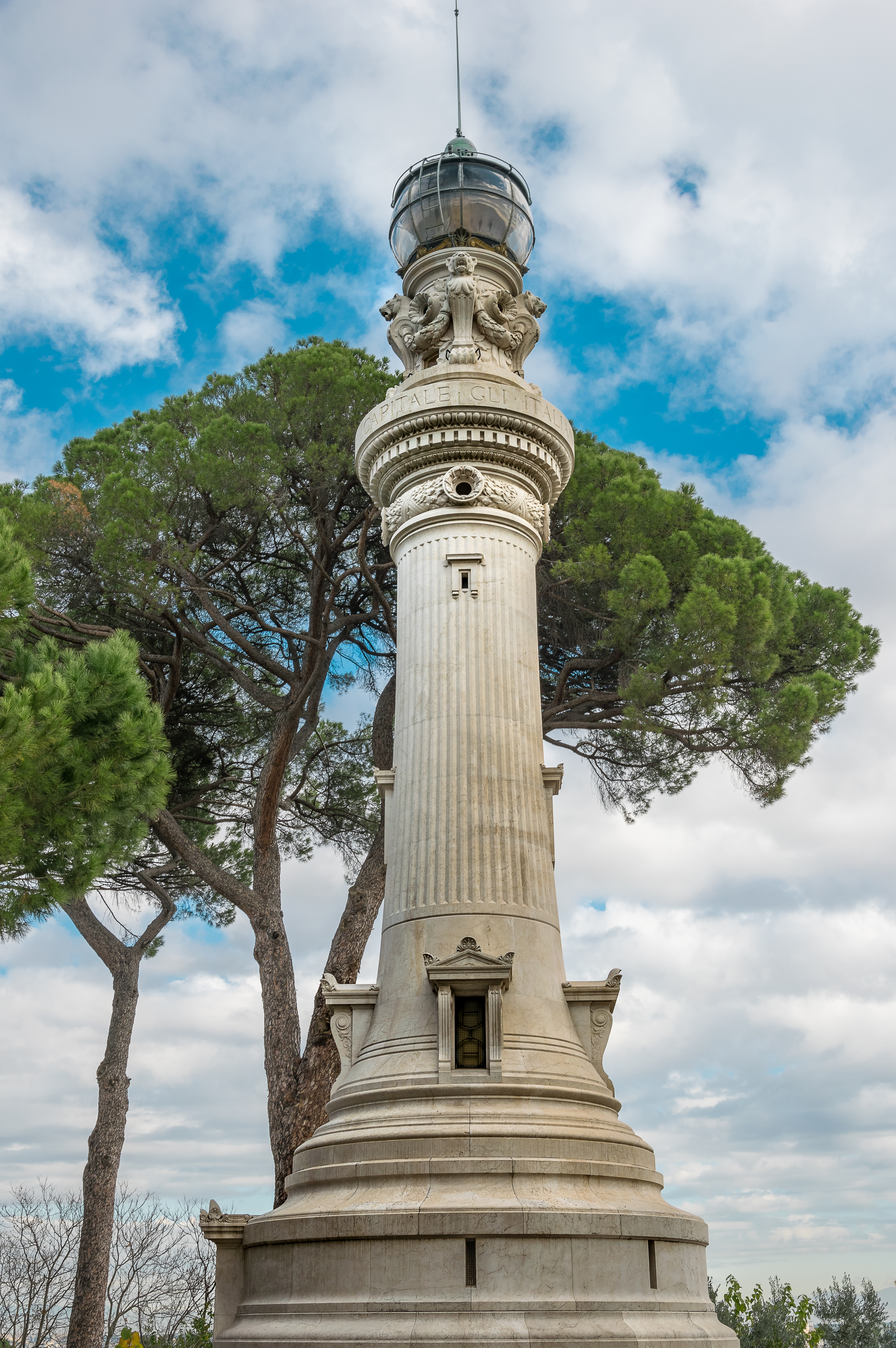 The lighthouse Faro del Gianicolo on the hill Gianicolo in Rome, Italy